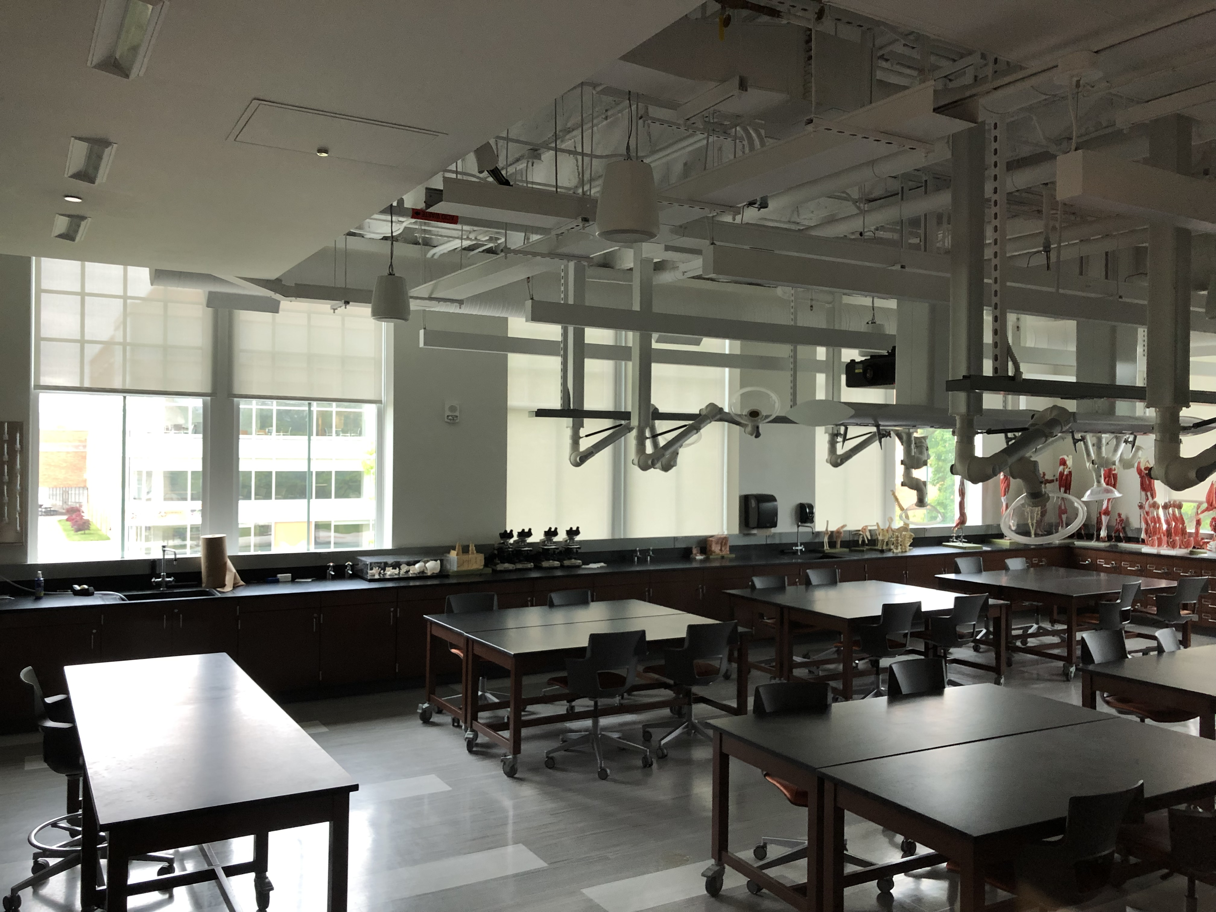 Moseley Hall Anatomy Lab